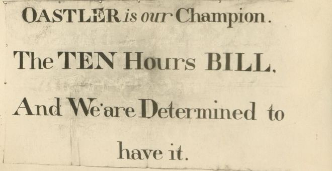 This was a flag used by the 19th century labour reformer Richard Oastler.